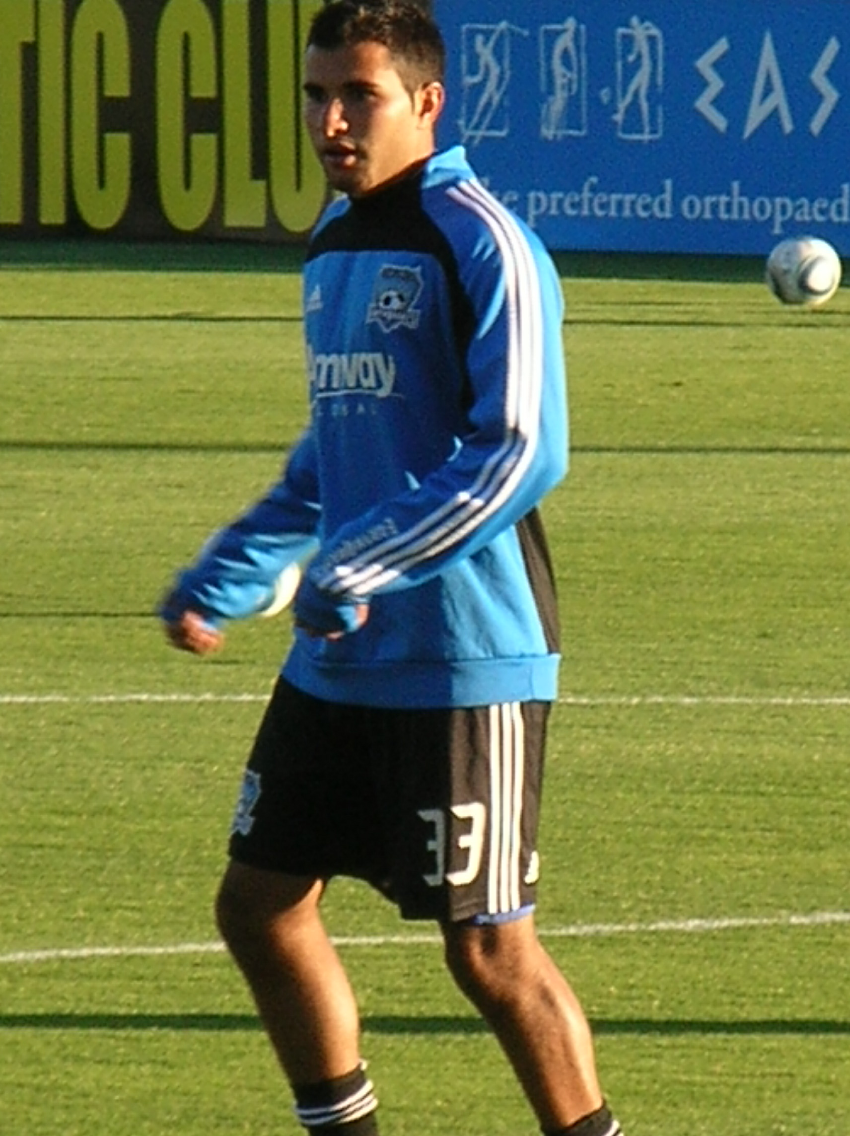 San Jose Earthquakes midfielder Steven Beitashour warming up before a home game against the Philadelphia Union. The Earthquakes won 1-0.